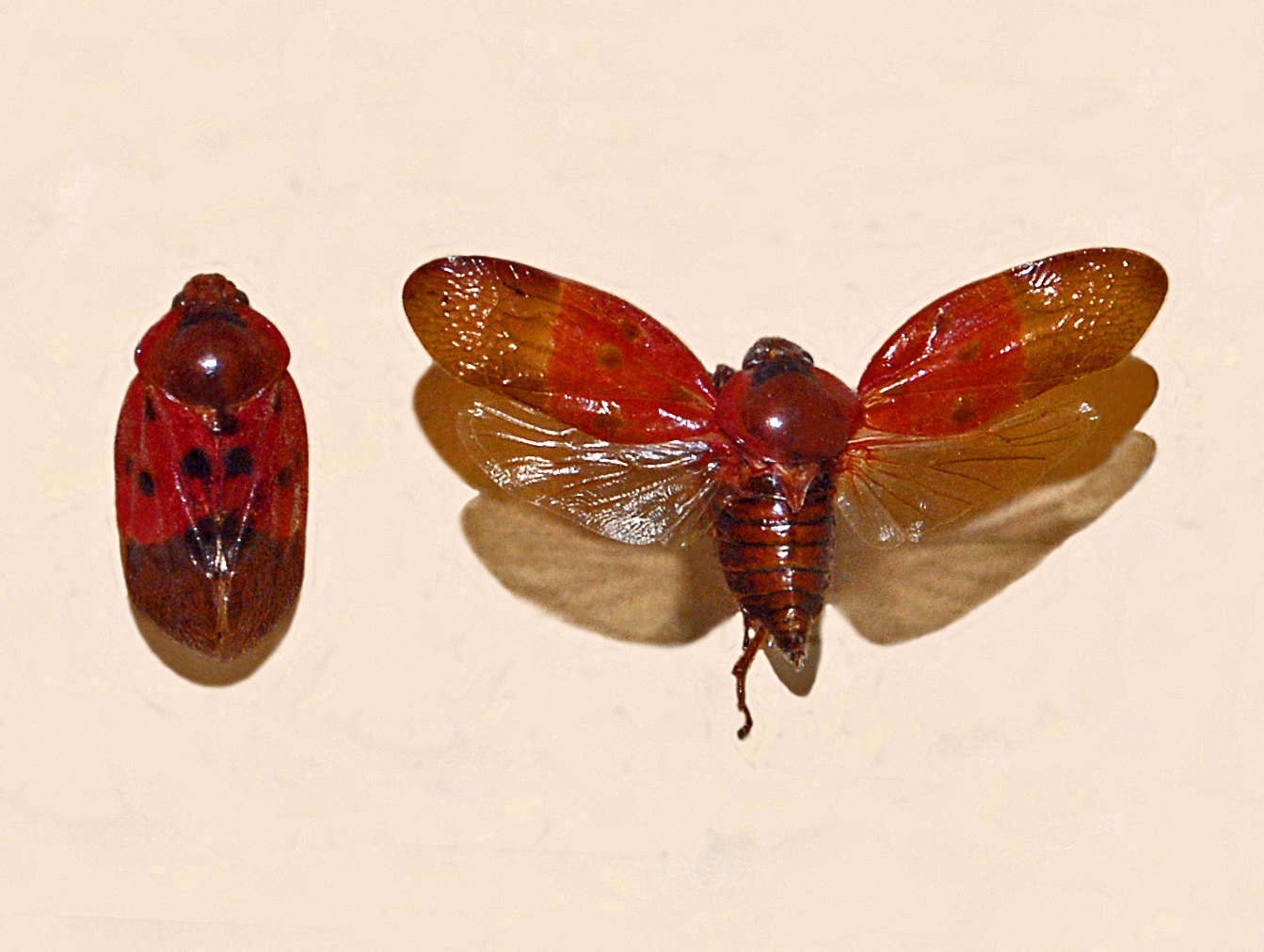 Leptataspis discolor from New Guinea. Museum specimen